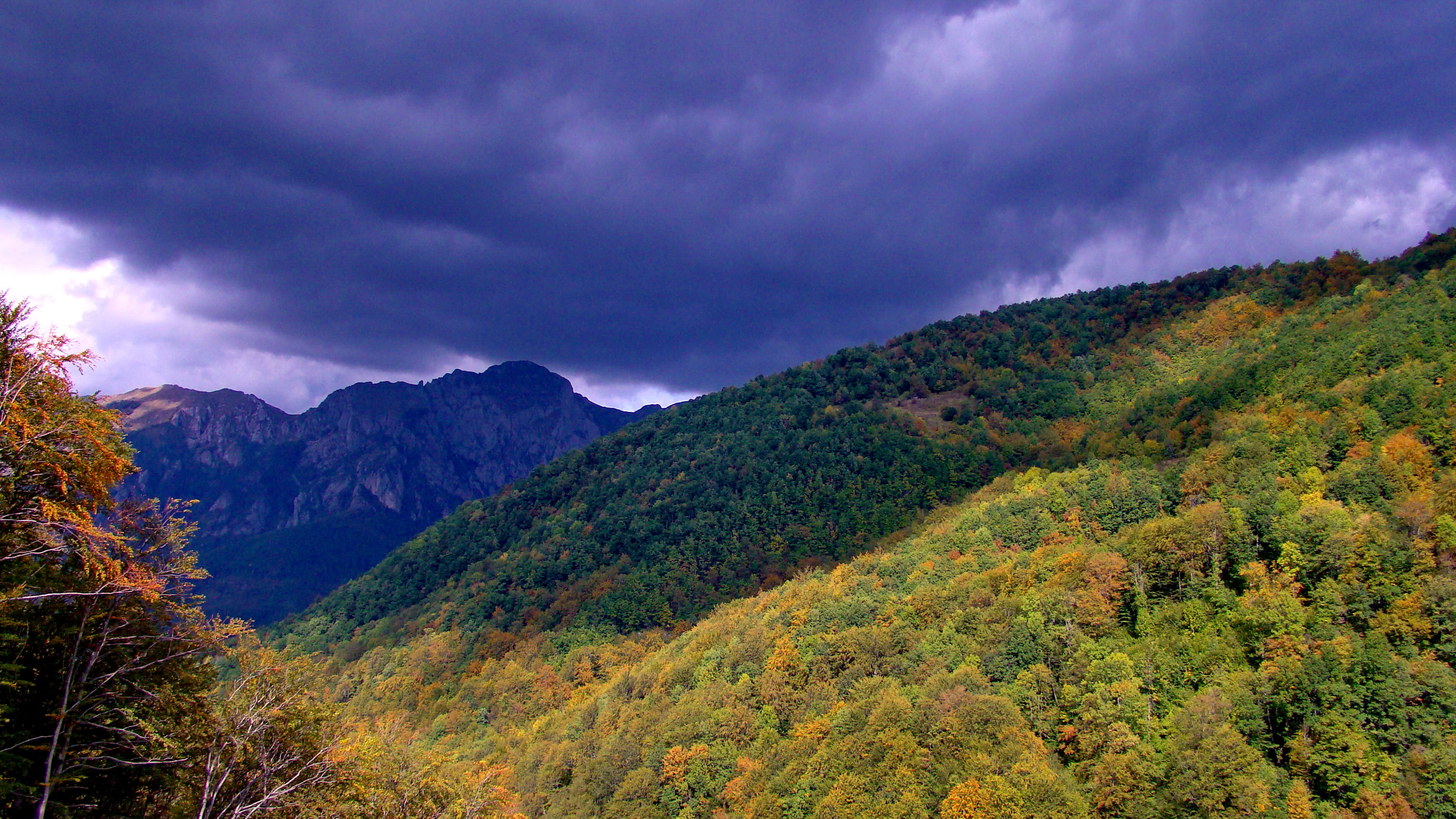 Српски (ћирилица): Национални парк „Сутјеска" This image was uploaded as part of Trace of Soul 2016.